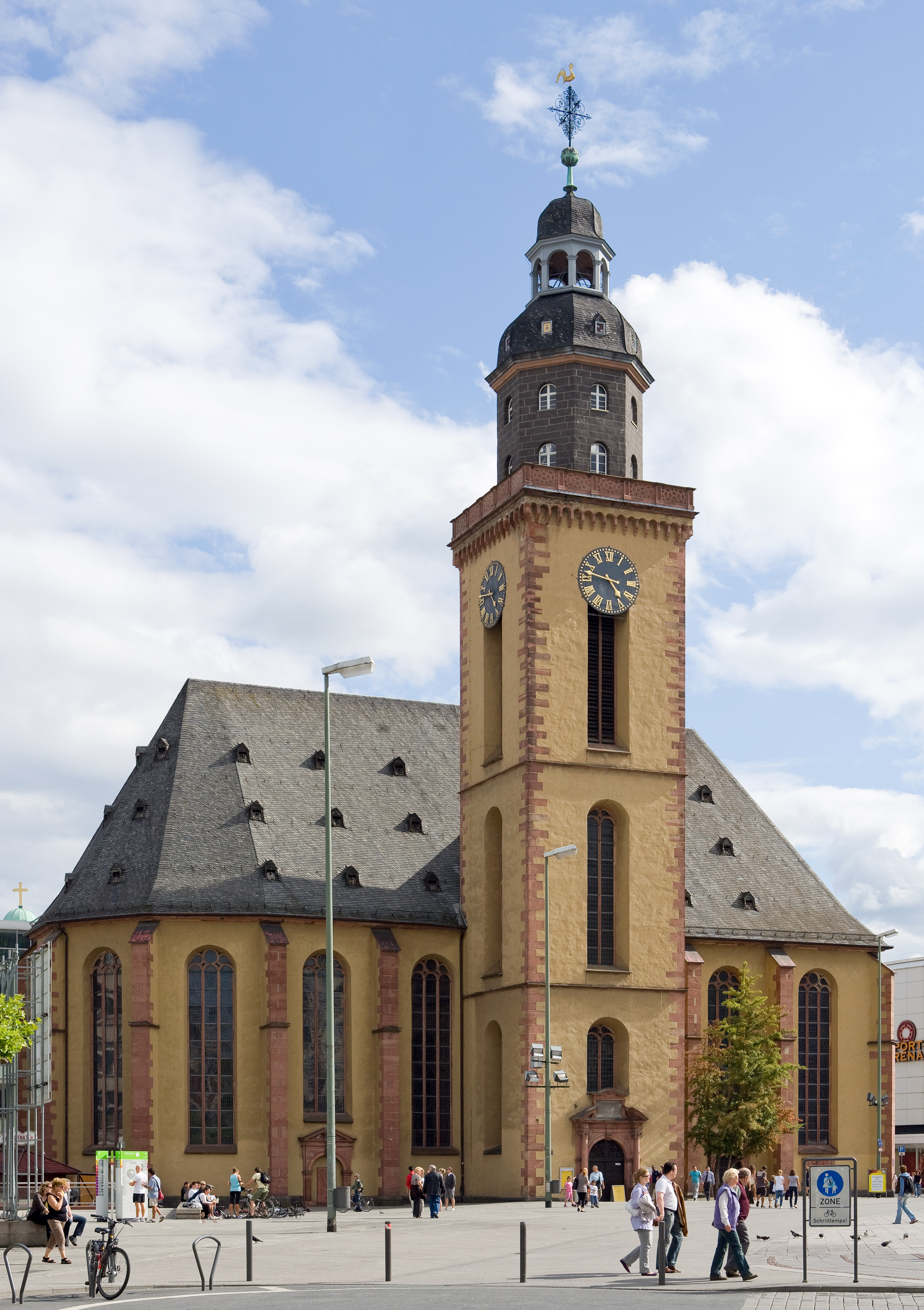 Frankfurt on the Main: Katharinenkirche (St. Catherine's Church) as seen from the Grosse Eschenheimer Strasse (Great Eschenheimer Street)